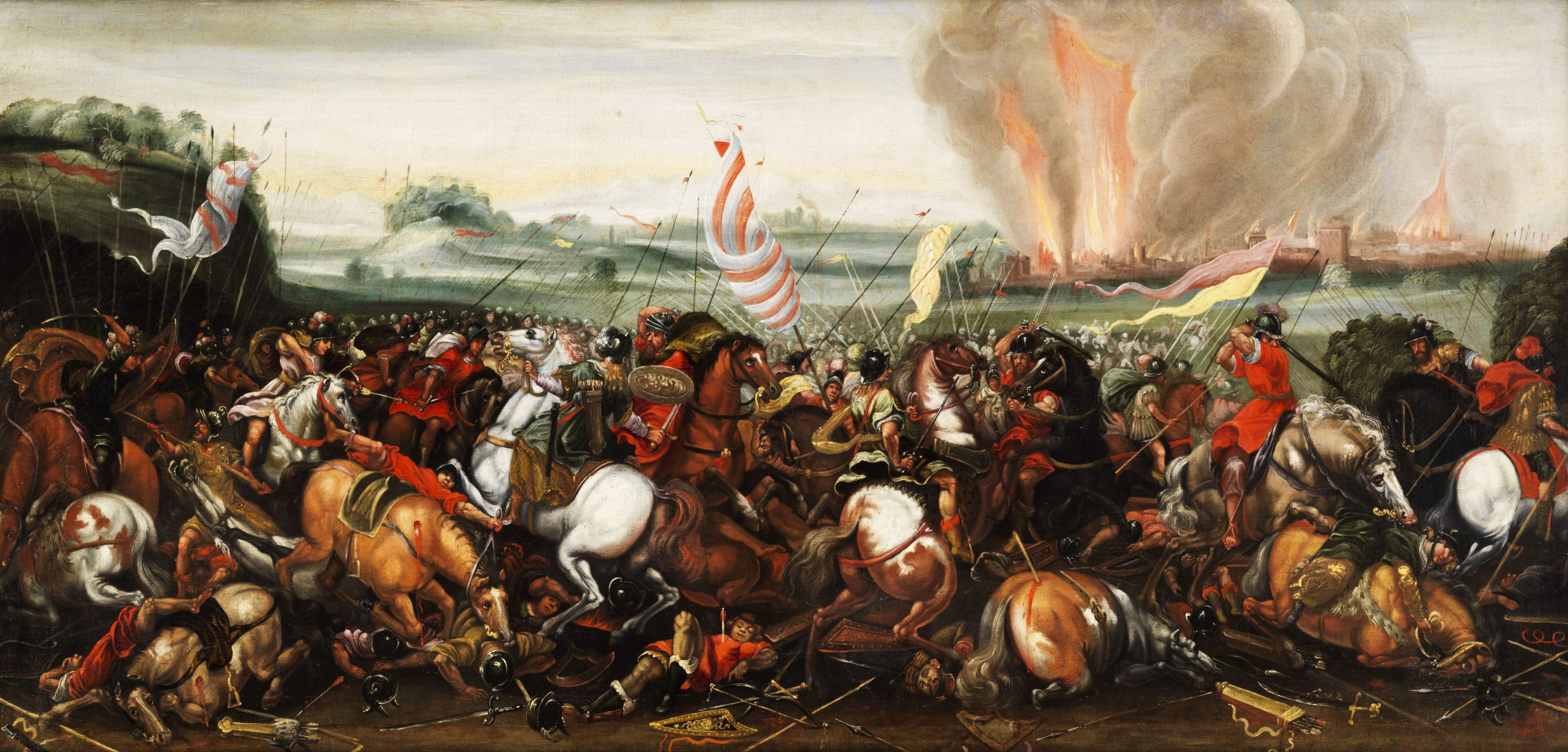 Great battle painting with fighting horsemen in front of a burning town.